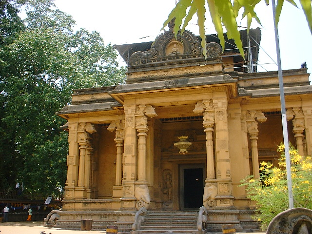 AtulaSiriwardane 17:48, 12 April 2007 (UTC)